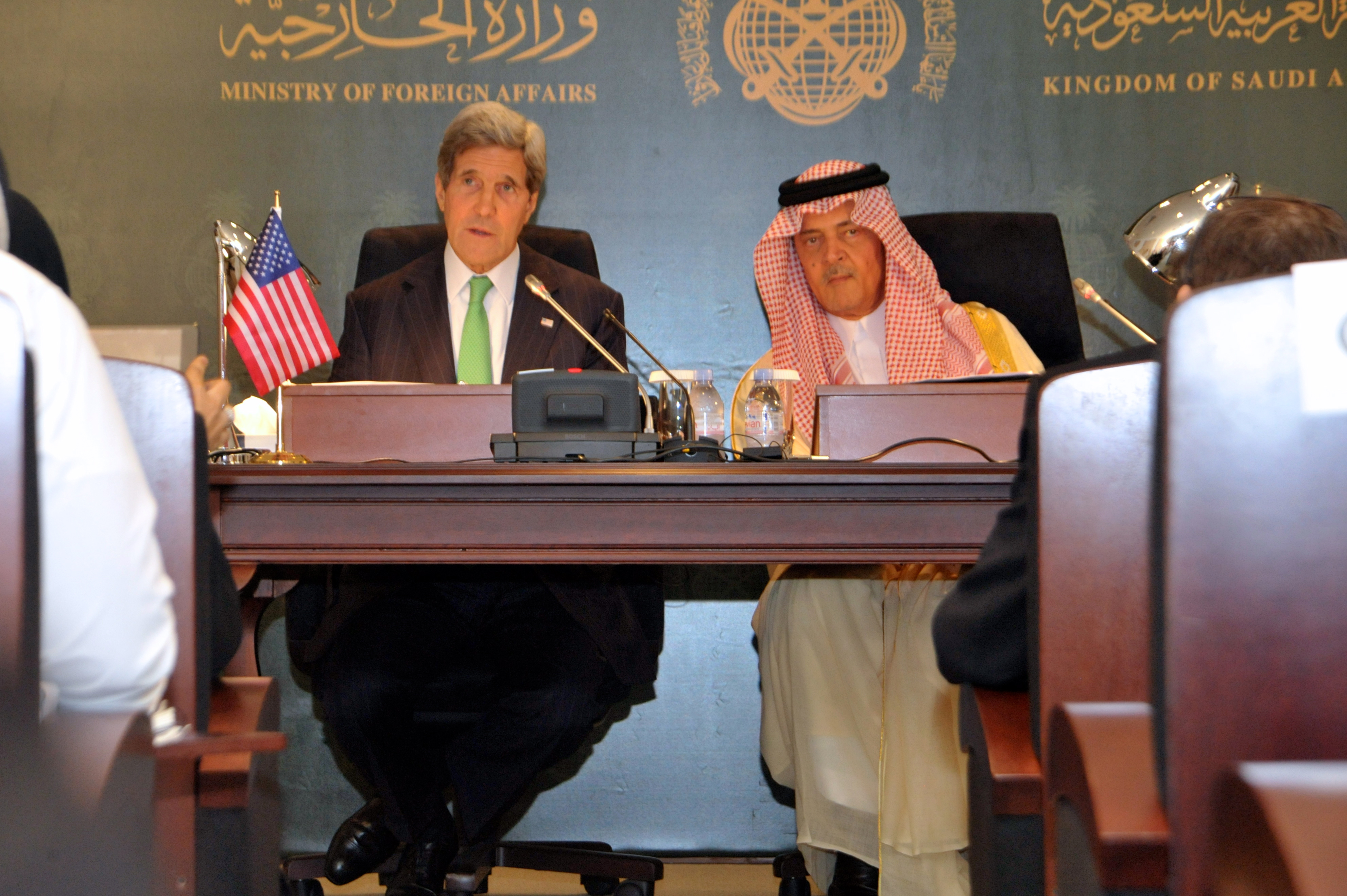 U.S. Secretary of State John Kerry and Saudi Foreign Minister Saud al-Faisal hold a joint news conference after a meeting in Jeddah, Saudi Arabia, on June 25, 2013. [State Department photo/ Public Domain]